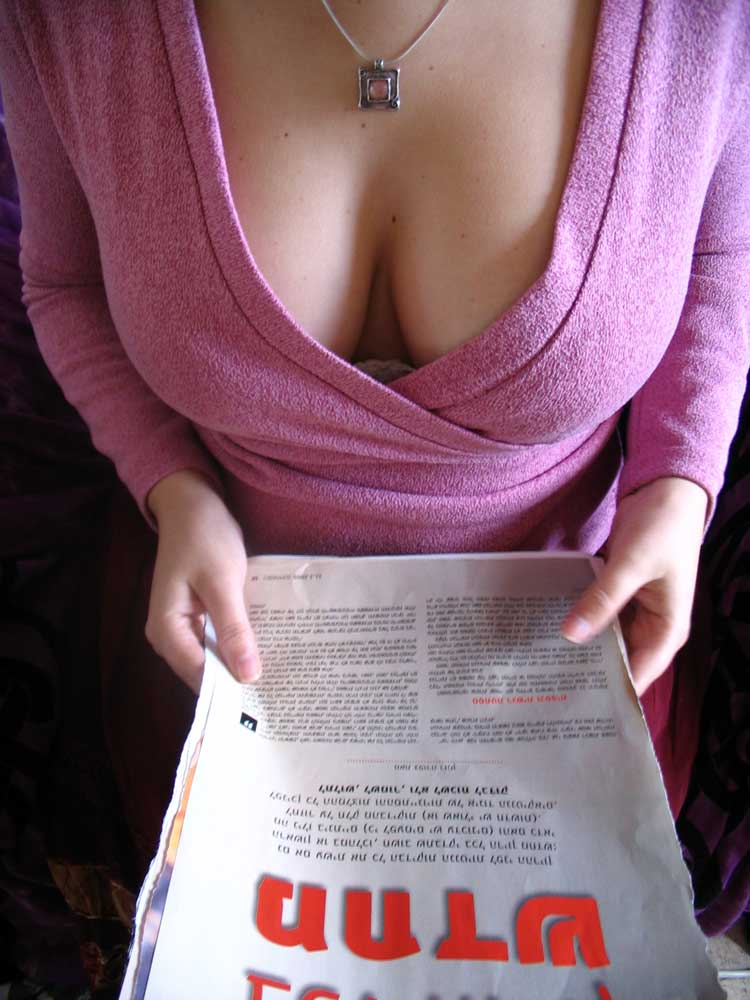 Cleavage of a woman holding documents in hebrew.